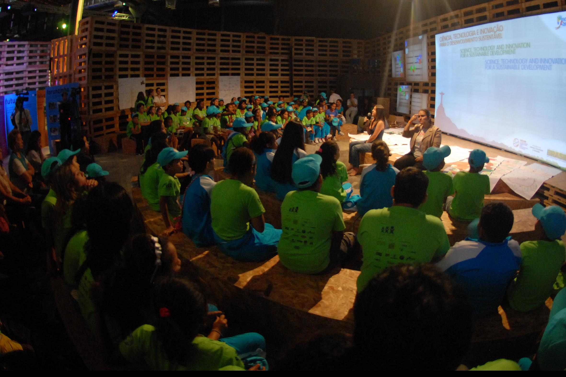 Atividades da Fundação Xuxa Meneghel: Projeto + Criança da Fundação Xuxa Meneghel